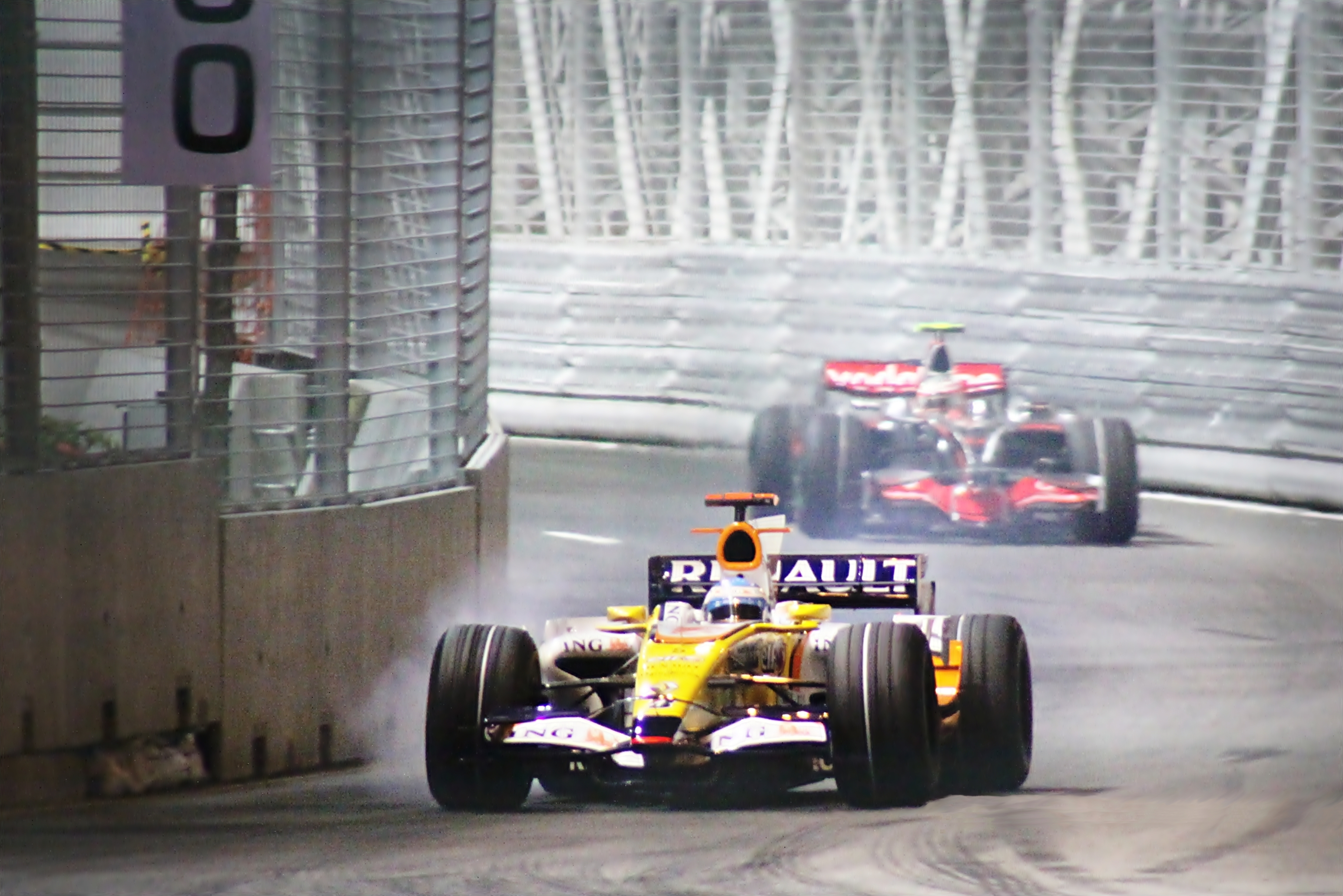 Renault at the Singapore GP